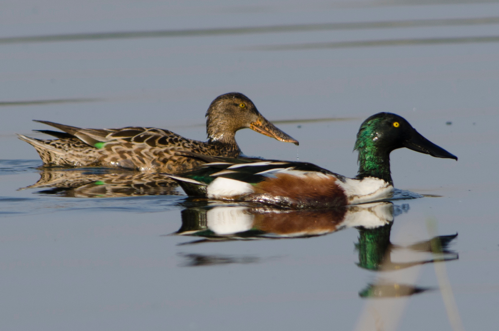 Northern Shoveller Anas clypeata - Male and female, clicked at Nagpur, Maharashtra, India